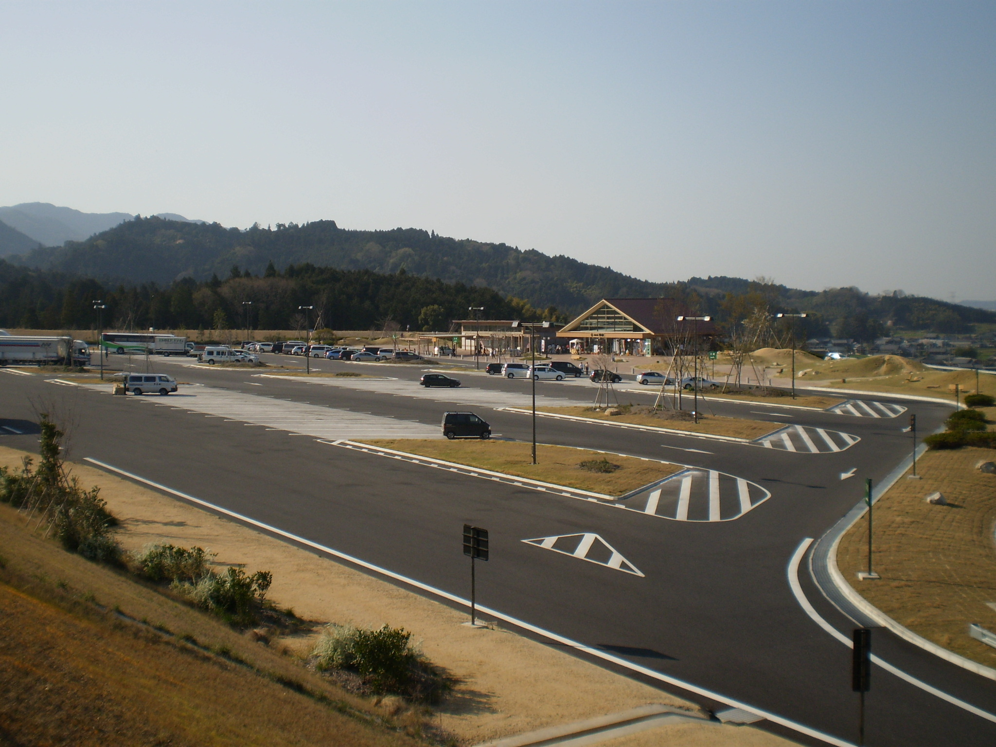 Konan Parking Area on the Shin-Meishin Expressway inbound line, in Konan-cho Sugitani, Koka City, Shiga Prefecture, Japan